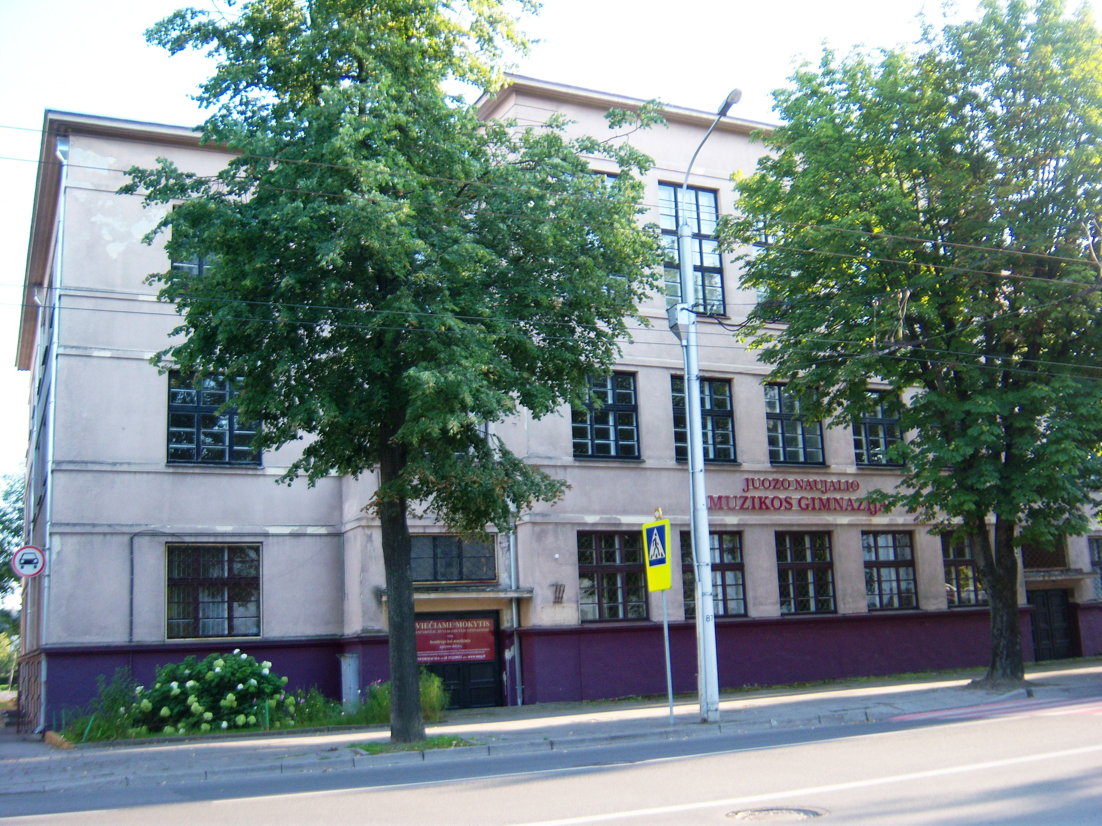 Juozas Naujalis Music Gymnasium, Kaunas, Lithuania